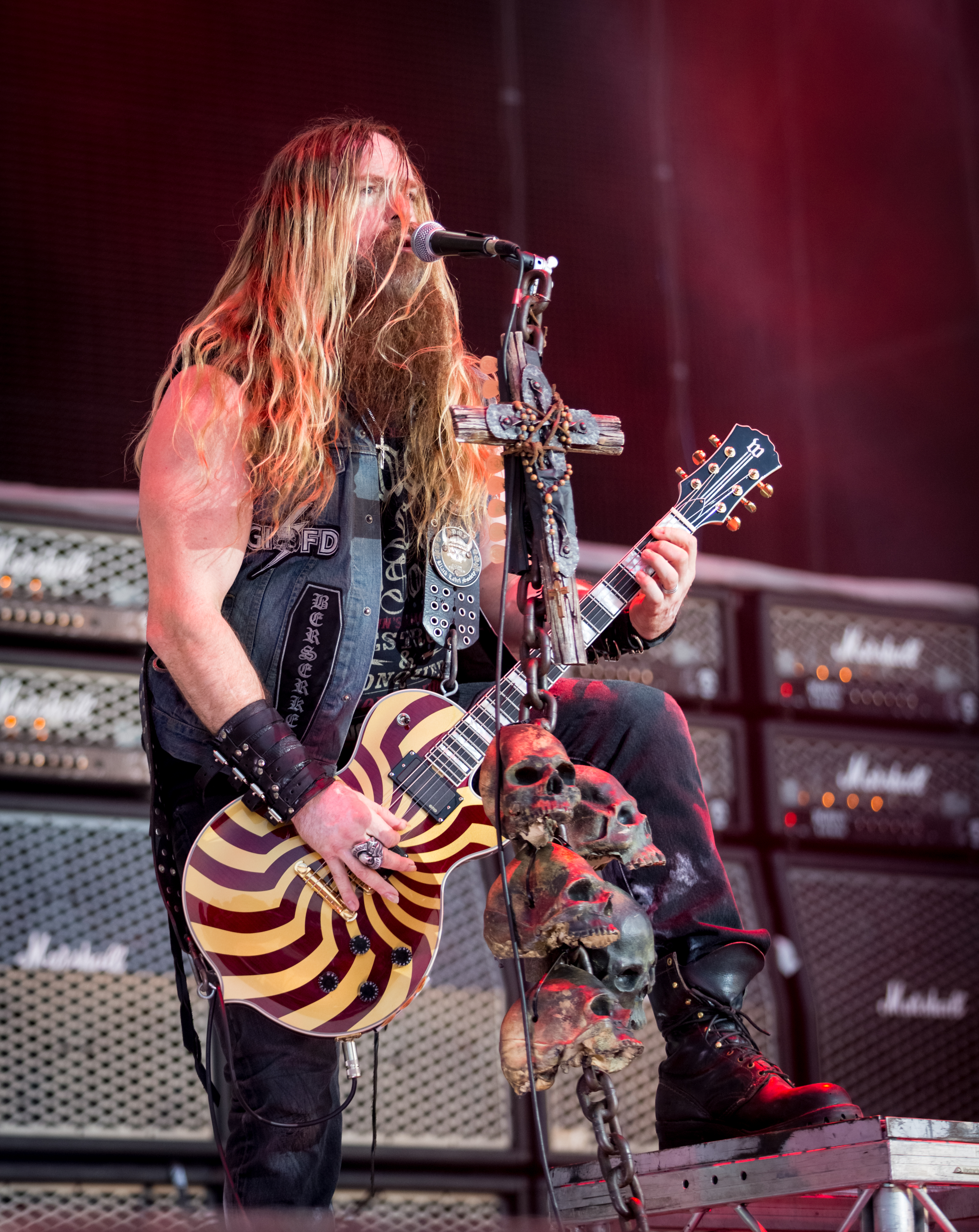 Black Label Society - Wacken Open Air 2015